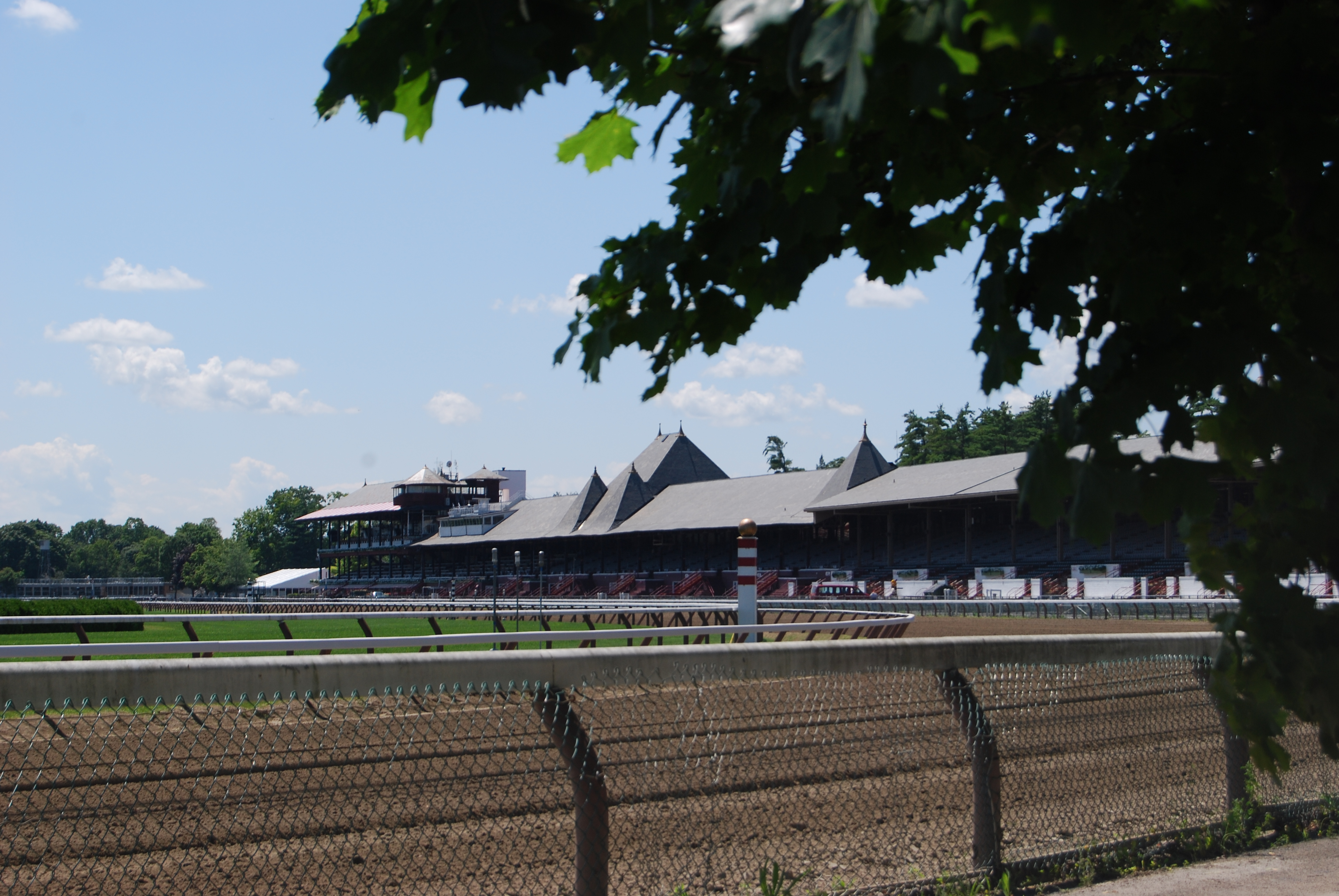 Saratoga Race Course, located in Saratoga Springs, New York, United States, is the oldest organized sporting venue of any kind in the United States.